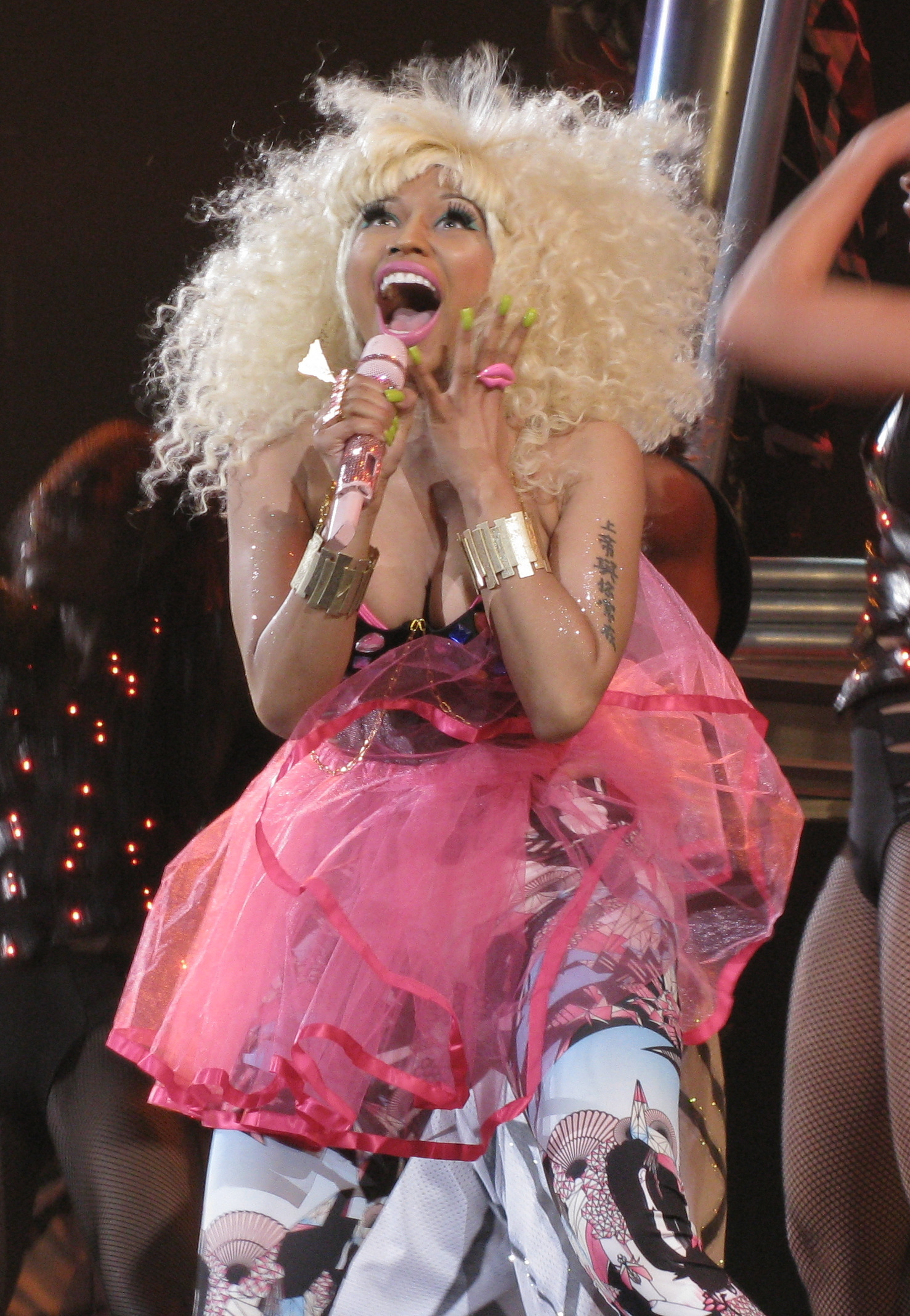 Nicki Minaj live in Toronto in August 15, 2011.